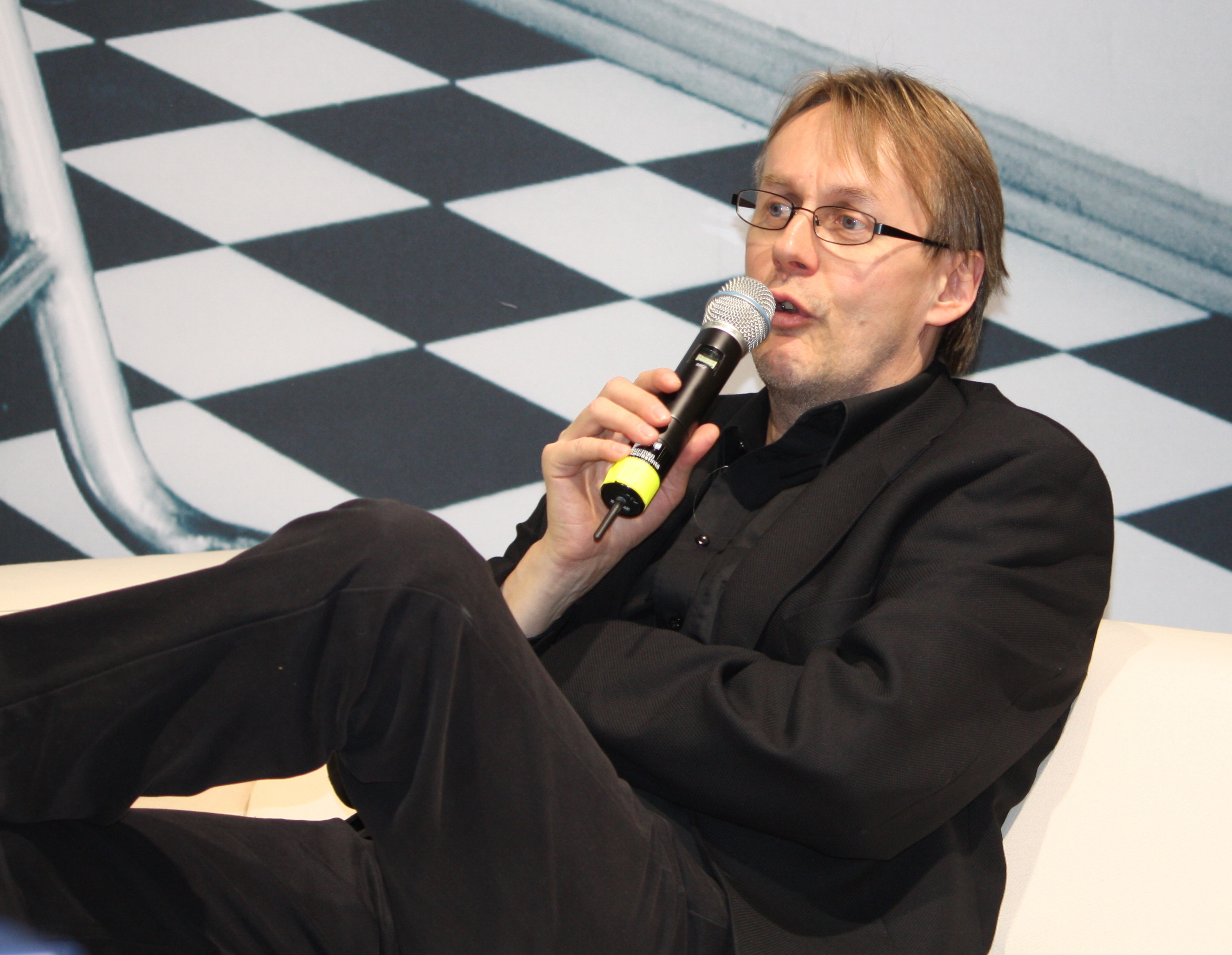 Finnish comics artist Ilpo Koskela at the Helsinki Book Fair 2010